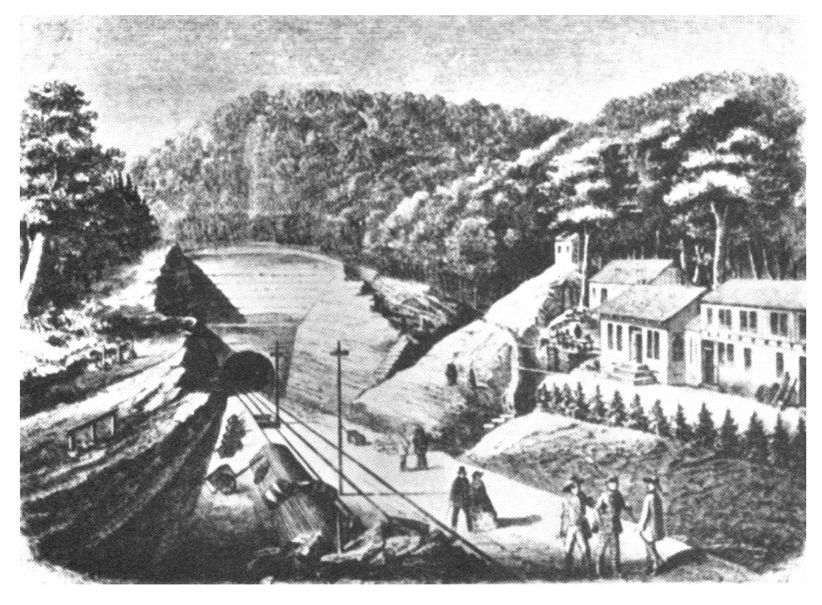 Album of the Werrabahn - Eppichnellen.